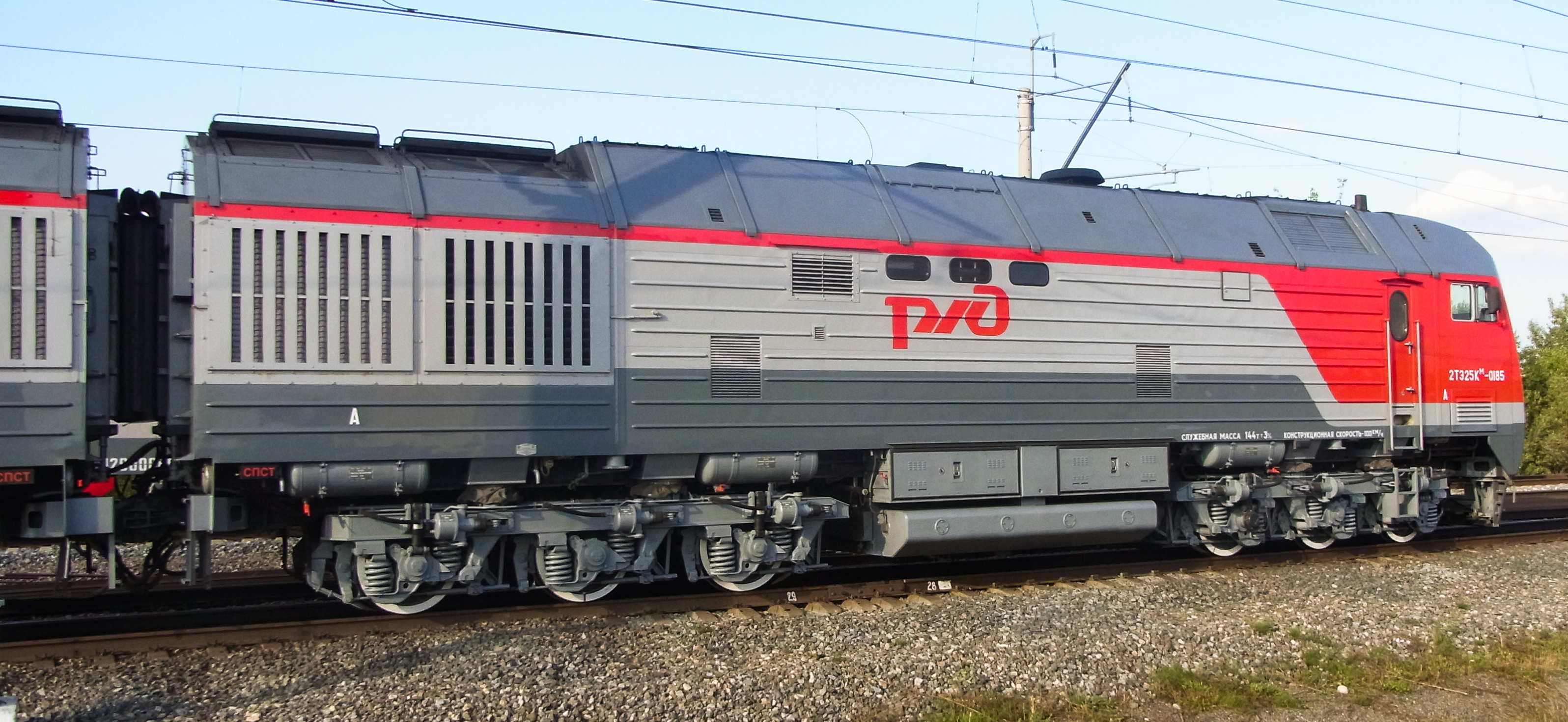 Side view of section of diesel locomotive 2TE25KM-0185 at train parade during Expo 1520 railway exhibition in 2017 on railway test circuit in Shcherbinka, Moscow, Russia